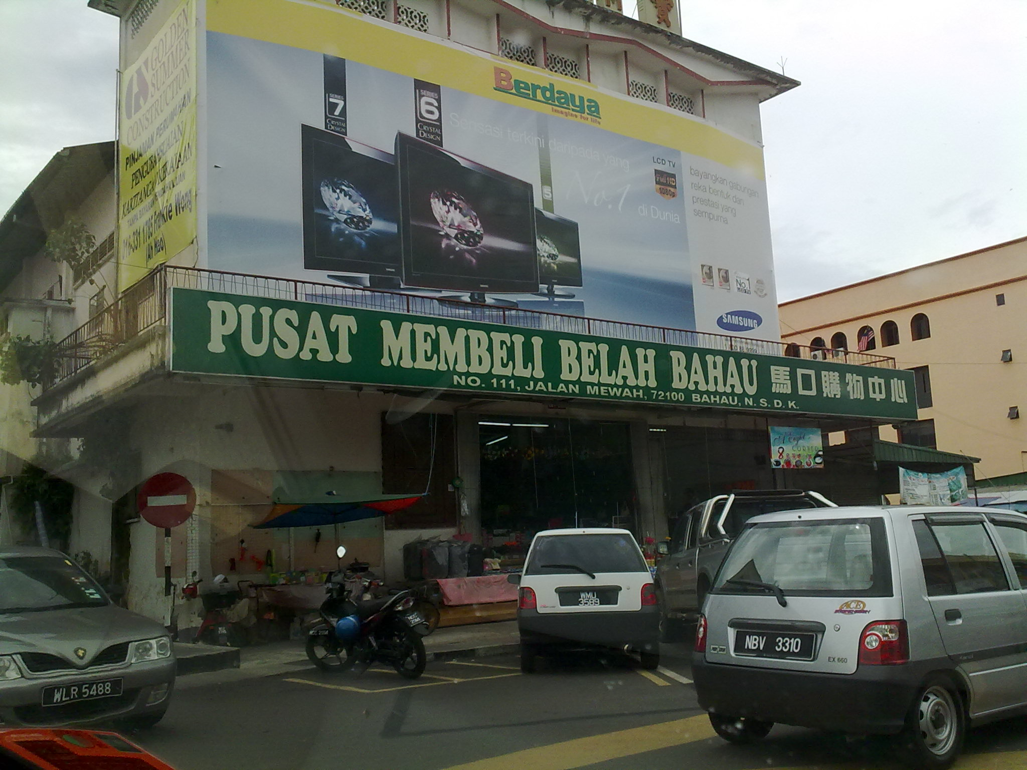 Pusat Membeli Belah Bahau, formerly a cinema theatre (Nilam) on this Gurney Road